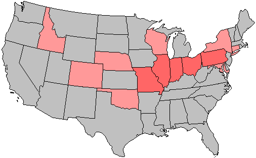 Summary of party change of U.S. house seats in the 1950 House election. Stripes indicate a tie between the gains of two or more parties. Legend: 6+ Democratic seat pickup 3-5 Democratic seat pickup 1-2 Democratic seat pickup 1-2 Republican seat pickup 3-5 Republican seat pickup 6+ Republican seat pickup Note: years ending in 2 may have inconsistent results due to redistricting.